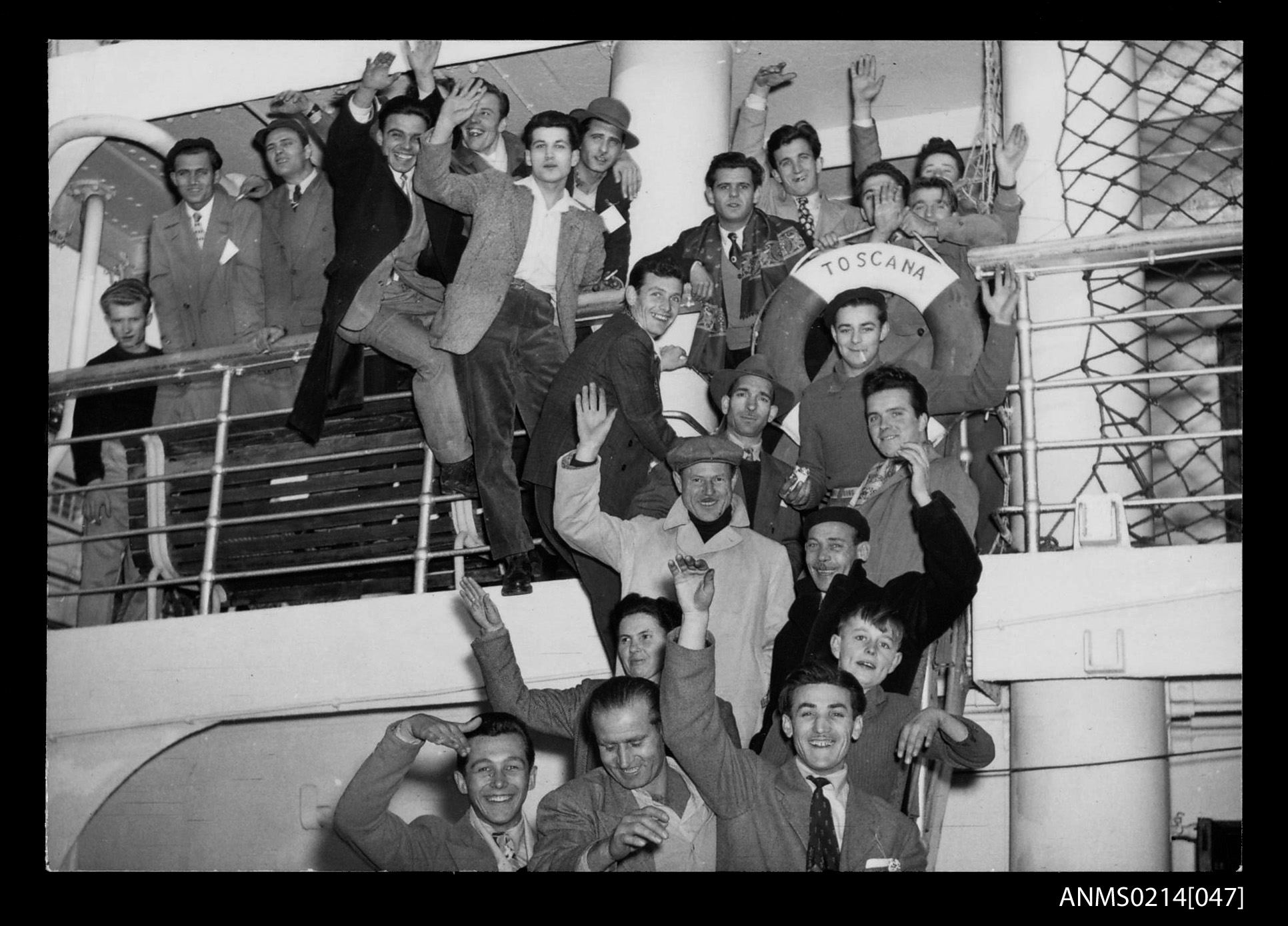 A group of migrants on the MV TOSCANA at Trieste January 1954. Stamp on reverse reads: `Foto Roma Trieste Via Roma [?] 20. Tel.3483. No. 22 Serie.'. In the lower right corner is a black stamp that reads: `ICEM photograph no. 508.' Handwritten in ink in the upper right hand corner is the inscription: `TOSCANA from Trieste 2/1/54'. (ICEM = Intergovernmental Committee for European Migration). The ANMM undertakes research and accepts public comments that enhance the information we hold about images in our collection. Object no. ANMS0214[047] ANMM Collection Gift from Barbara Alysen The Australian National Maritime Museum will be holding an after-dark lightshow based on stories of migration from 26 January to 17 February 2013. Check the website for more information on 'Waves of Migration', and how you can tell share your migration story.